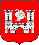 Stemma Sessa